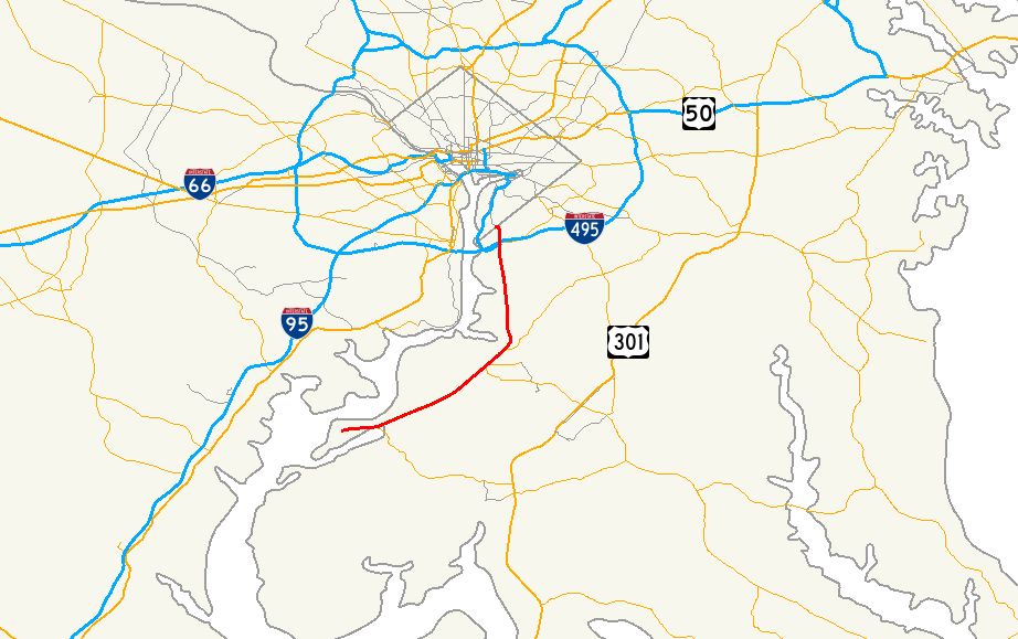 Map of Maryland Route 210